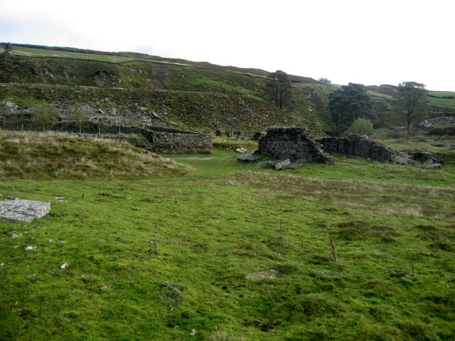 Disused Quarries at Scot Gate Ash Extensive abandoned quarries high above Pateley Bridge and Nidderdale.